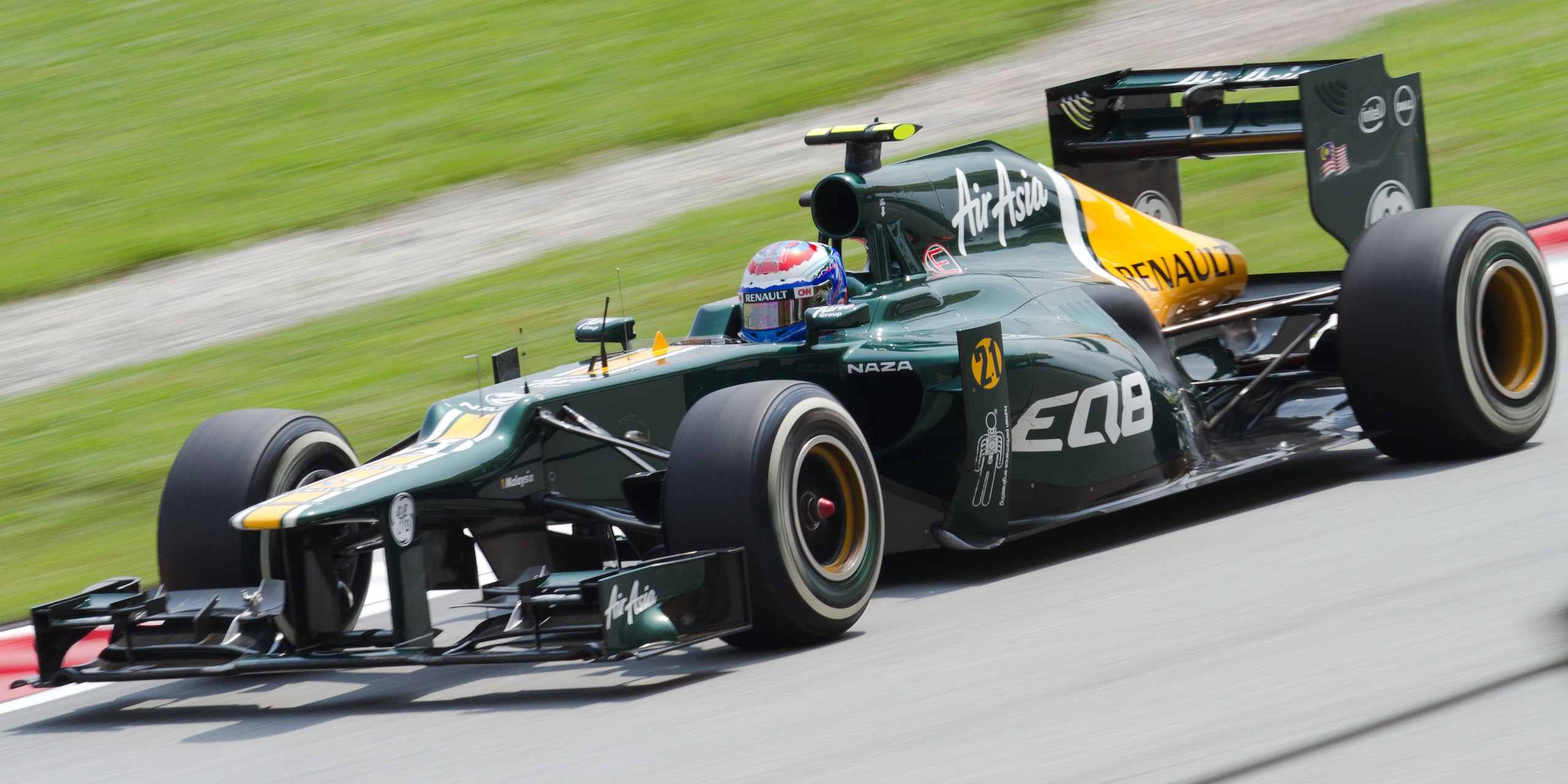 Formula One 2012 Rd.2 Malaysian GP: Vitaly Petrov (Caterham) during the first practice session on Friday.